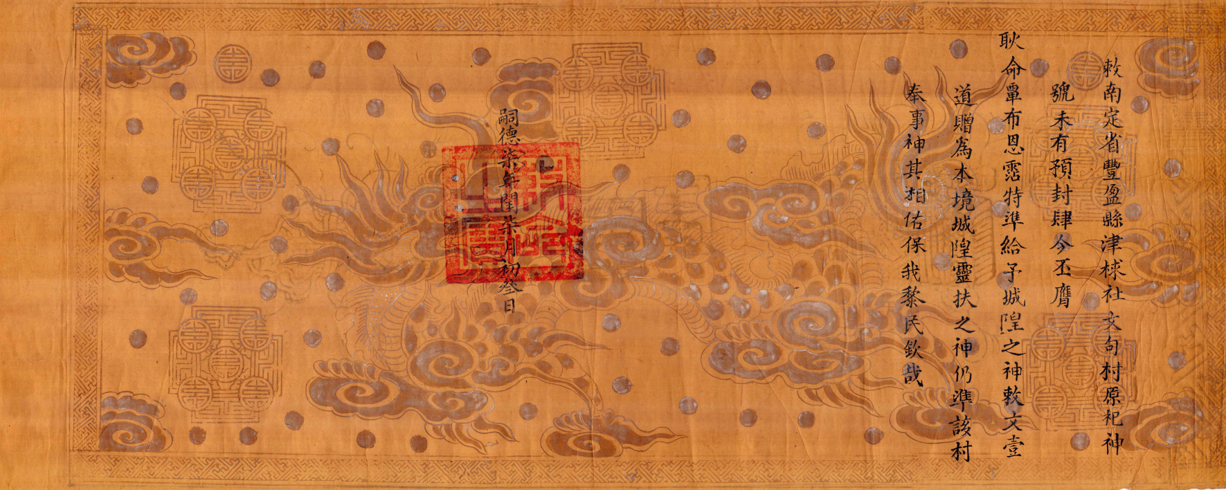 Sắc phong (Lord title grant document) for Quach Dinh Bao from King Tu Duc. Stored in Y Yen, Nam Dinh